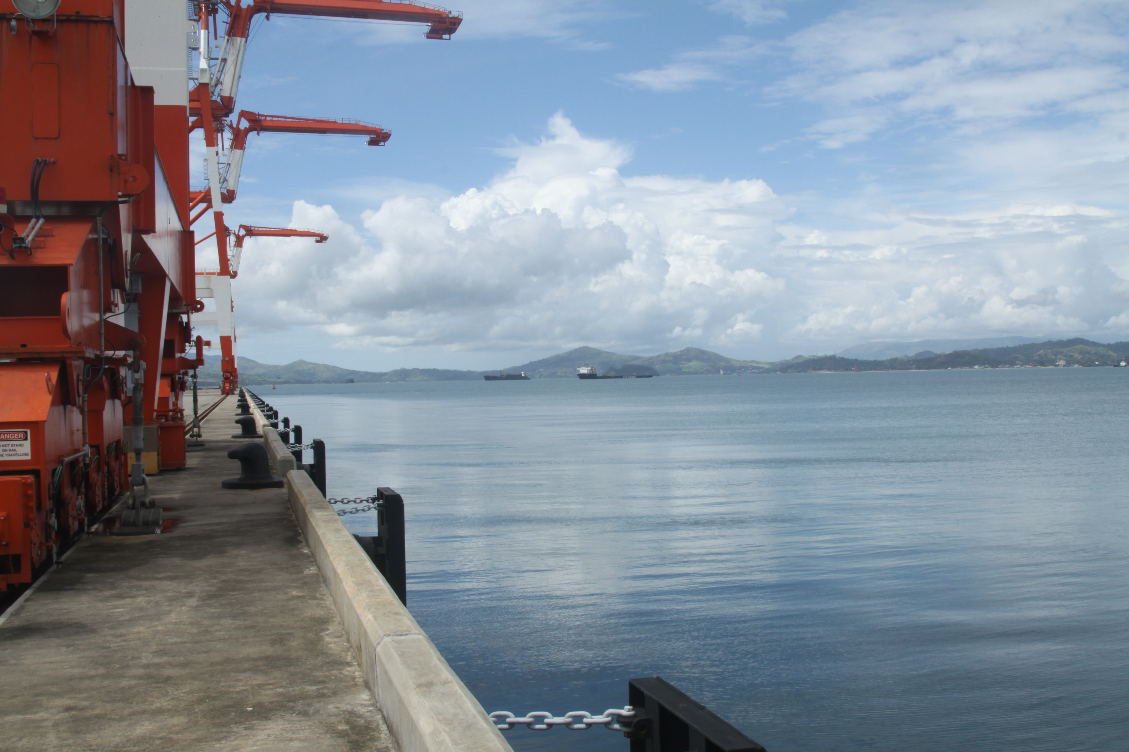 A site survey of the Port of Subic is being conducted on October 4, 2011 at Subic Bay, Republic of the Philippines . This survey was carried out in order to prepare for an off-loading that will happen on October 5, 2011 in support of Exercise PHIBLEX 2012. PHIBLEX 2012 is a bilateral training exercise and security assistance program between the U.S. military and the Armed Forces of the Philippines. The exercise ensures disaster relief efforts are more responsive, efficient and effective and complement U.S. and Philippine reconstruction efforts done in the wake of the typhoons that devastated parts of the Philippines in 2009.